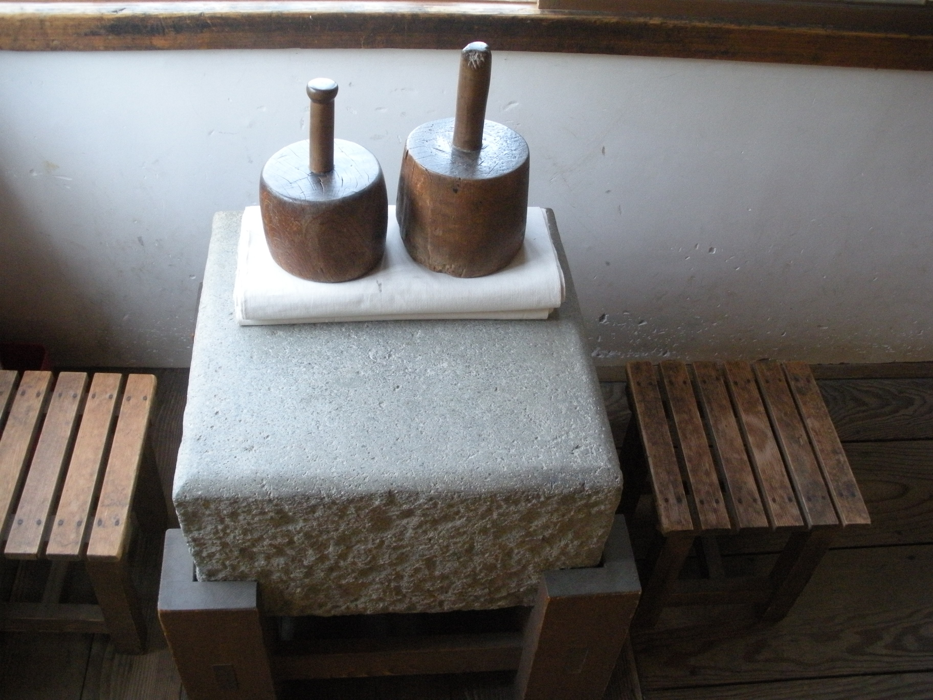 Kinuta（Hit the tools to soften fabric）